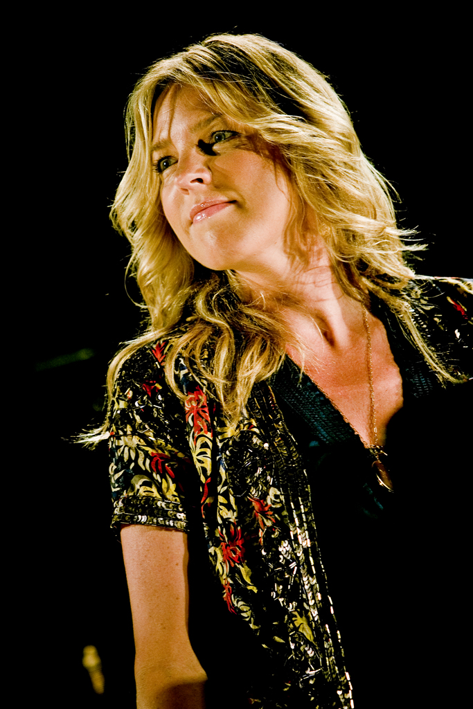 Diana Krall at Cool Jazz Fest, Oeiras, 30 July 2008